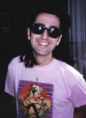 Subject: Paul King of the UK band King Date: Circa 1986 Place: Miyako Hotel, San Francisco, California, USA Photographer: Andwhatsnext Original 35mm photograph scanned Credit: Copyright (c) 1986 by Nancy J Price